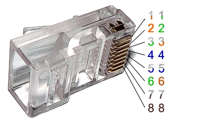 rj-45 pins colored.